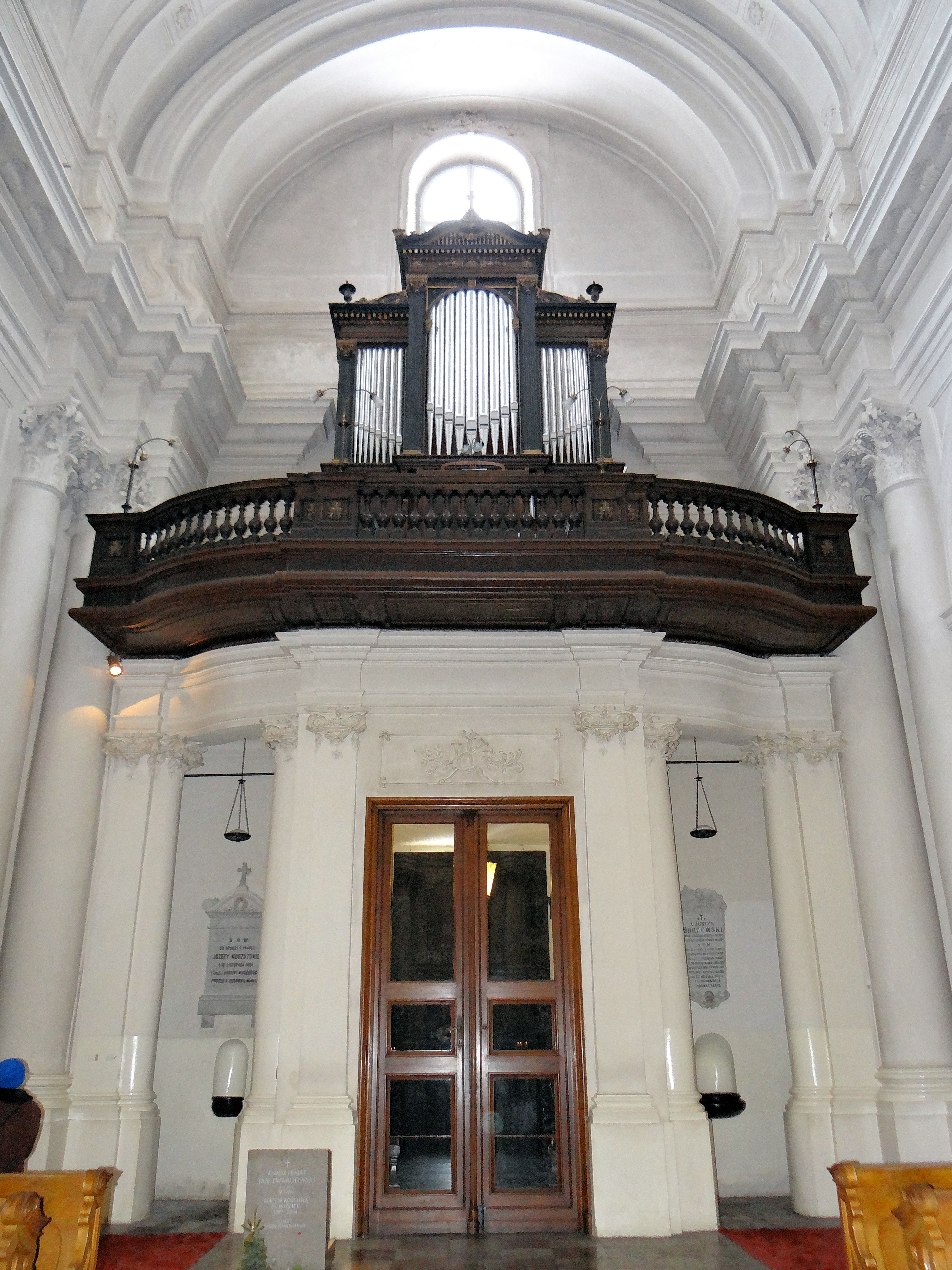 Pipe organs of Visitation Order church in Warsaw